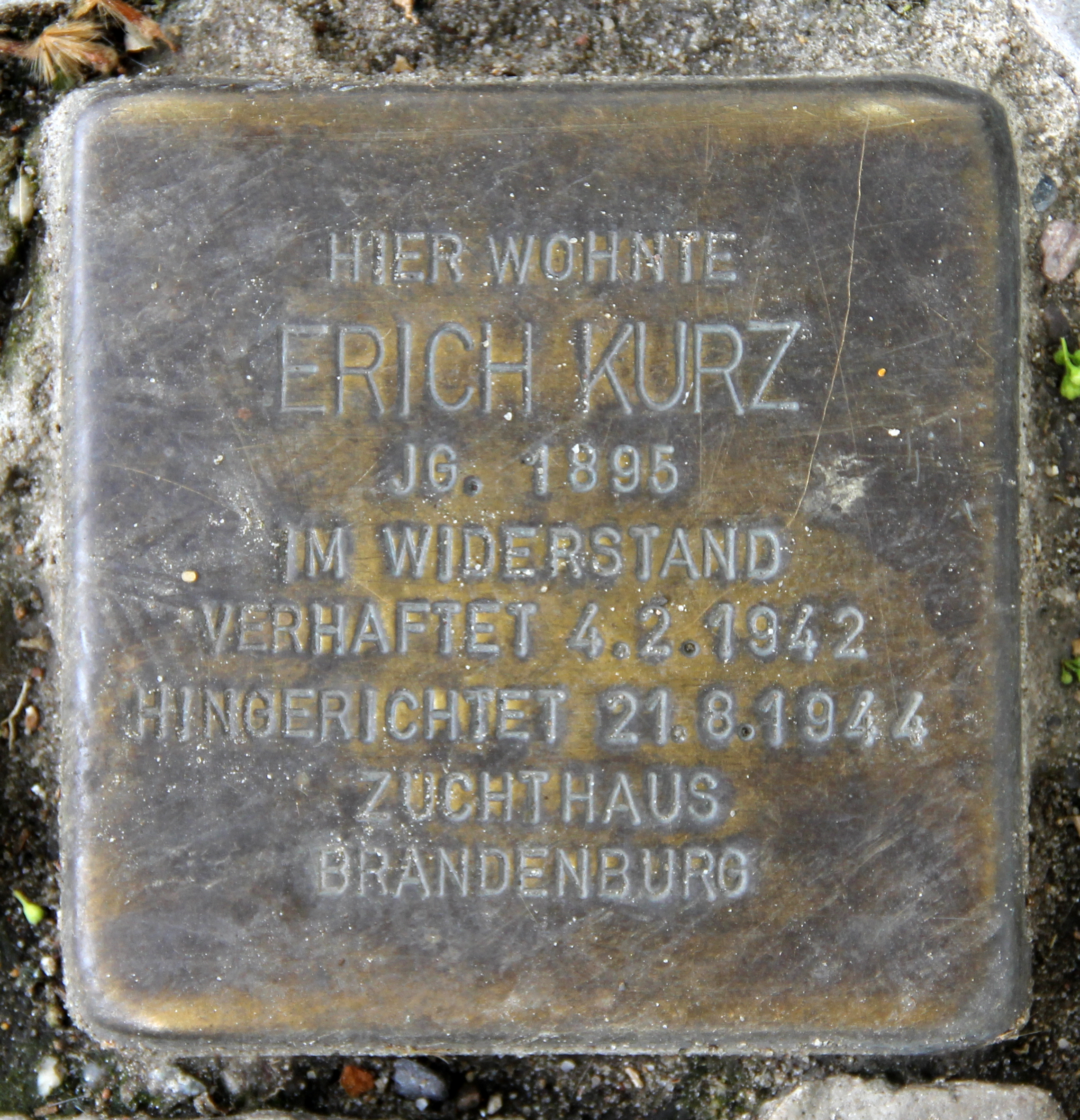 "Stolperstein" (stumbling block), Erich Kurz, Rückertstraße 9, Berlin-Charlottenburg, Germany